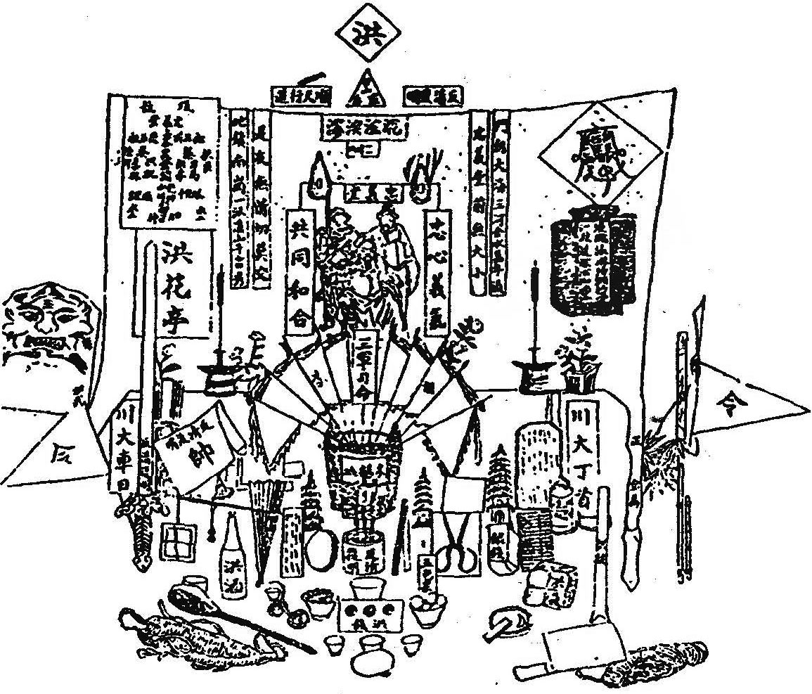 The scene of HongBang KaiXiangTang in Ming dynasty.